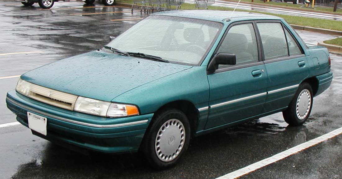 1991-1996 Mercury Tracer photographed in USA.